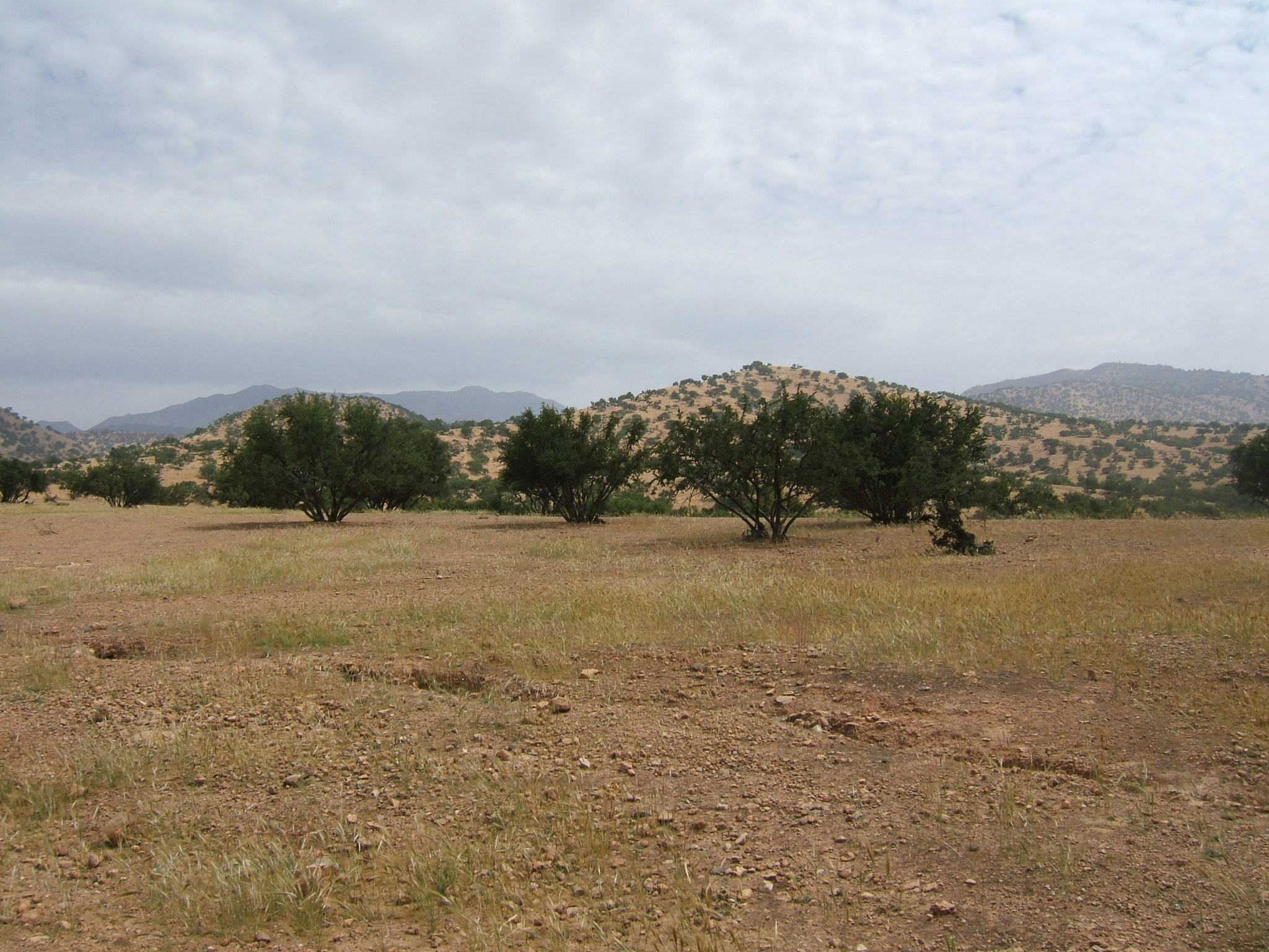 Argania spinosa habitat, northeast of Taroudant, Sous Valley, Maroc